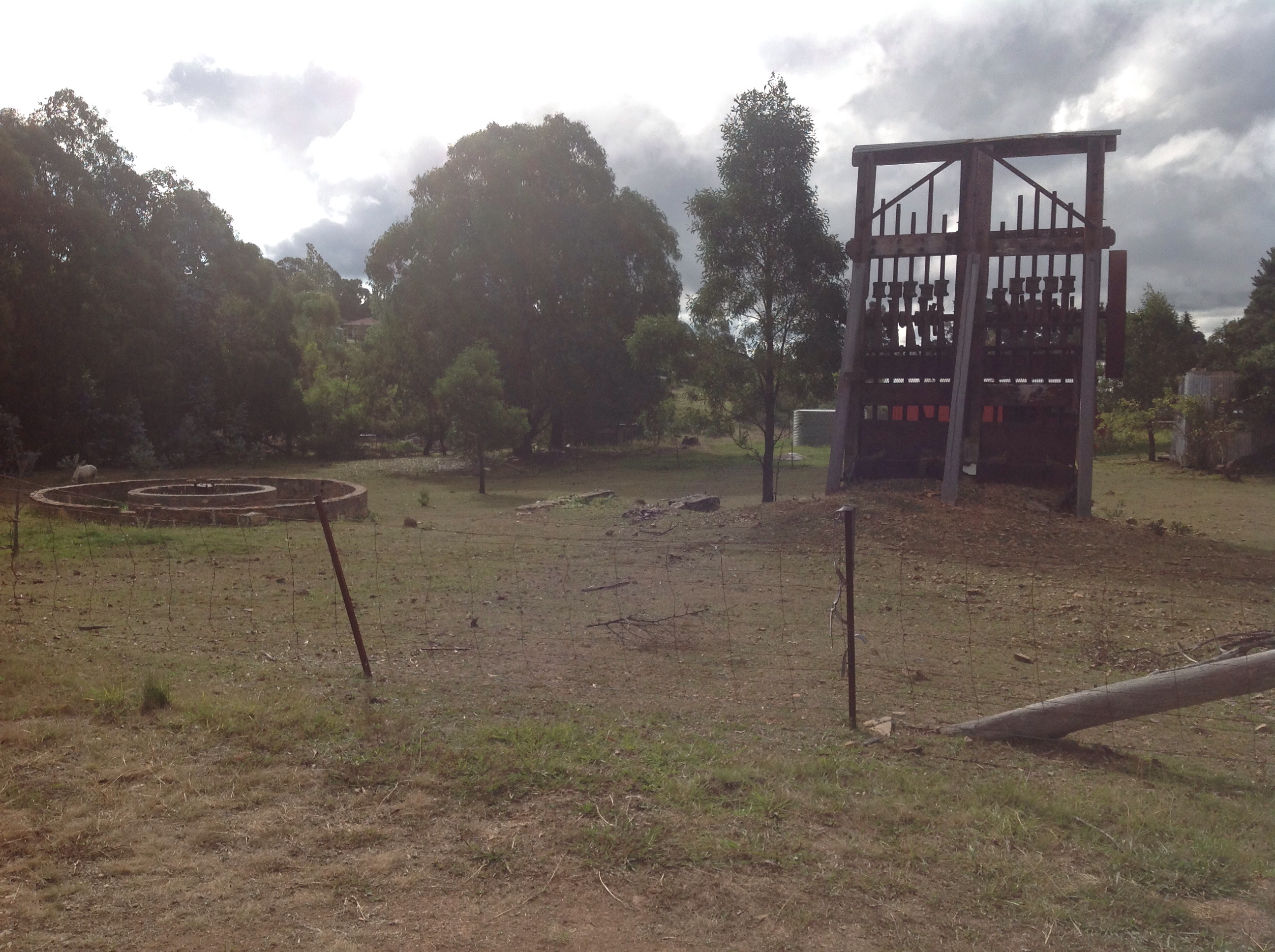 An old battery at Sunny Corner, NSW, Australia.